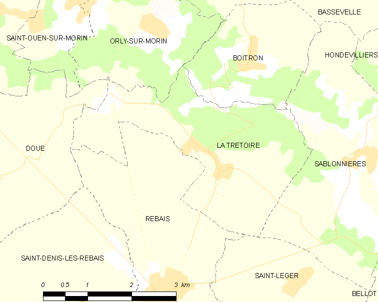 Map of French municipality La Trétoire